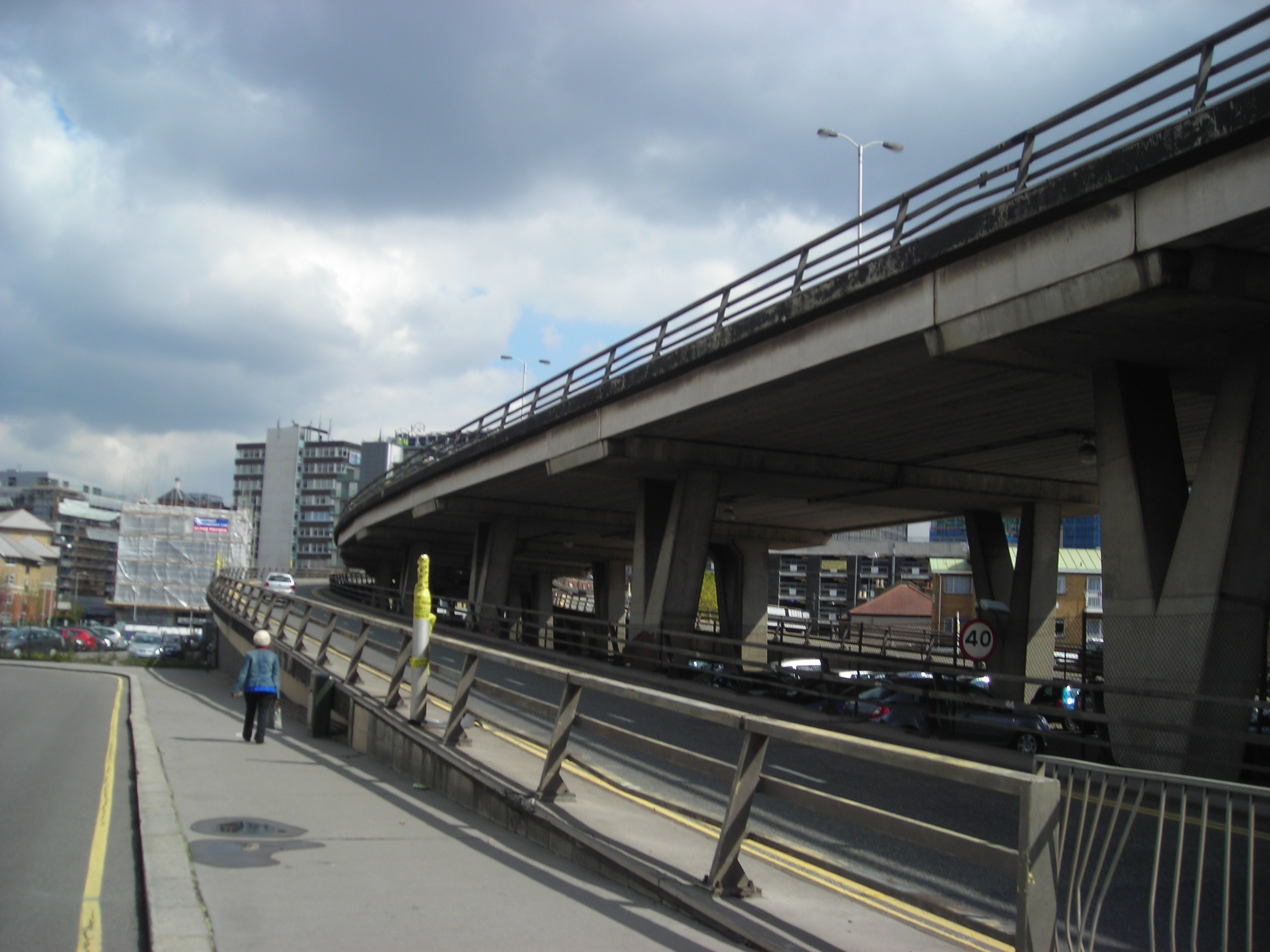 The Croydon Flyover with a slip road heading up to it from a roundabout with Old Town, Croydon